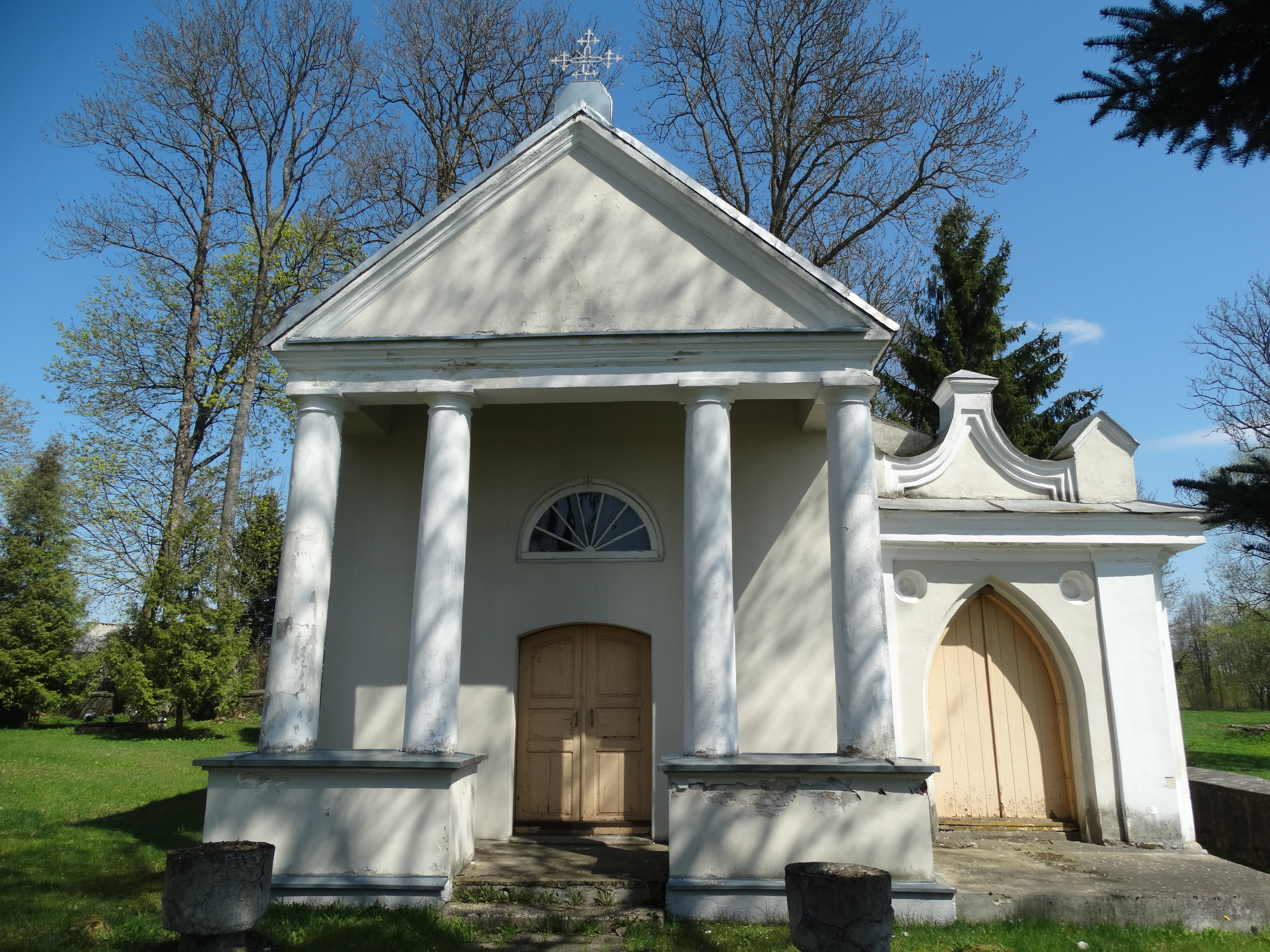 Chapel of Platers, Gelvonai, Širvintos District, Lithuania